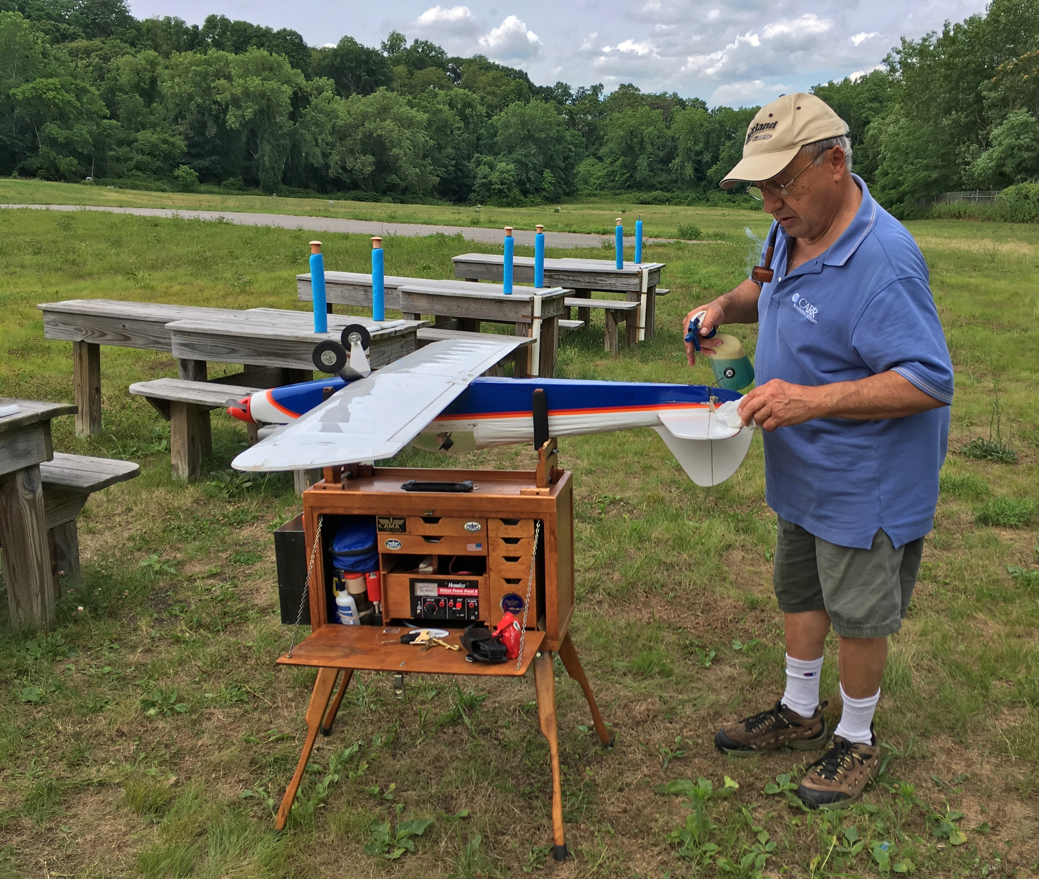 A radio-controlled aircraft being serviced atop a field box at the HHAMS Aerodrome. Fule-powered planes need to be wiped down after flights.